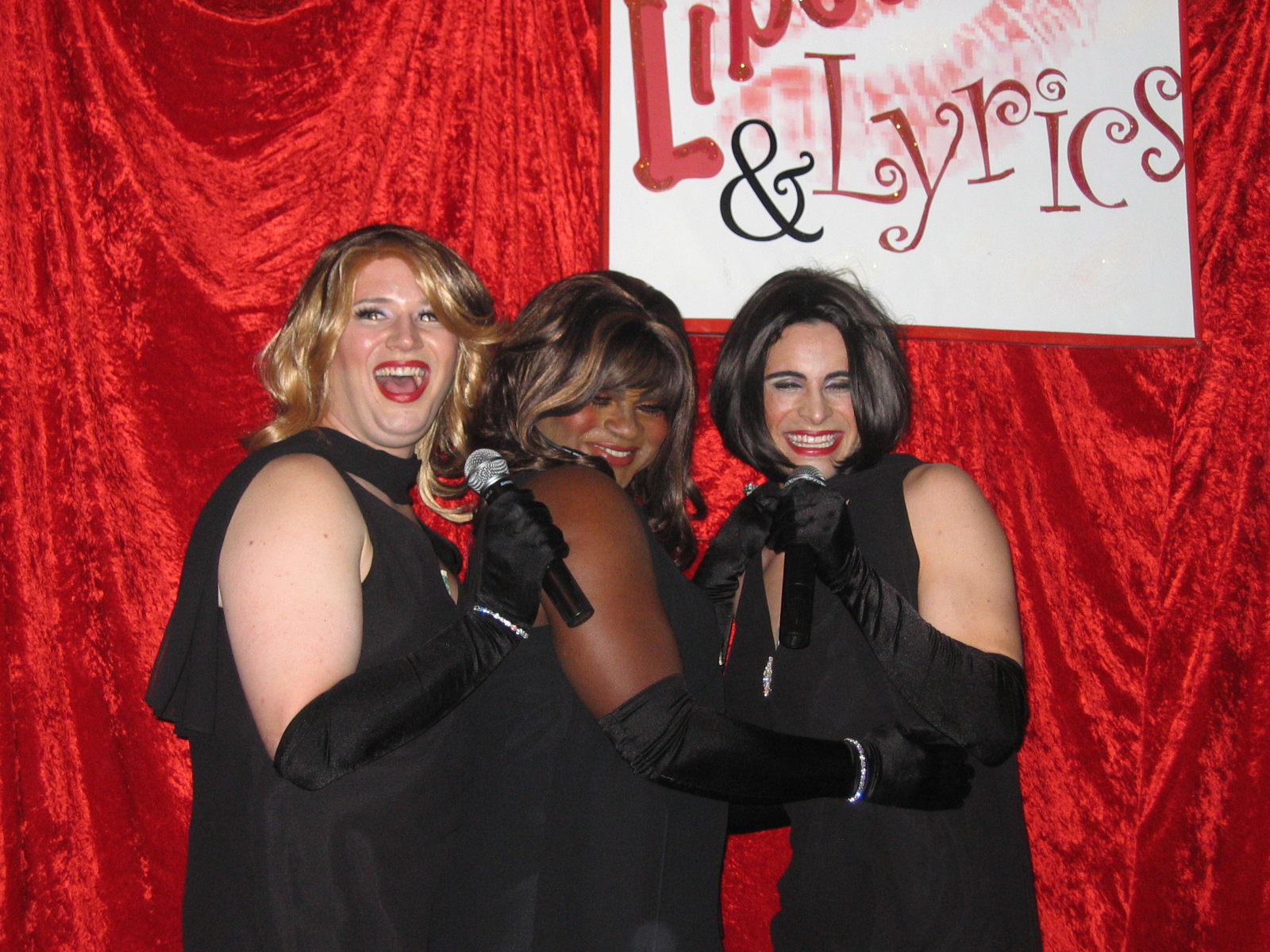 Foxy (Perry Simmons), backed up by his girls, first-time drag queens Jason Ott and Phil Joseph.